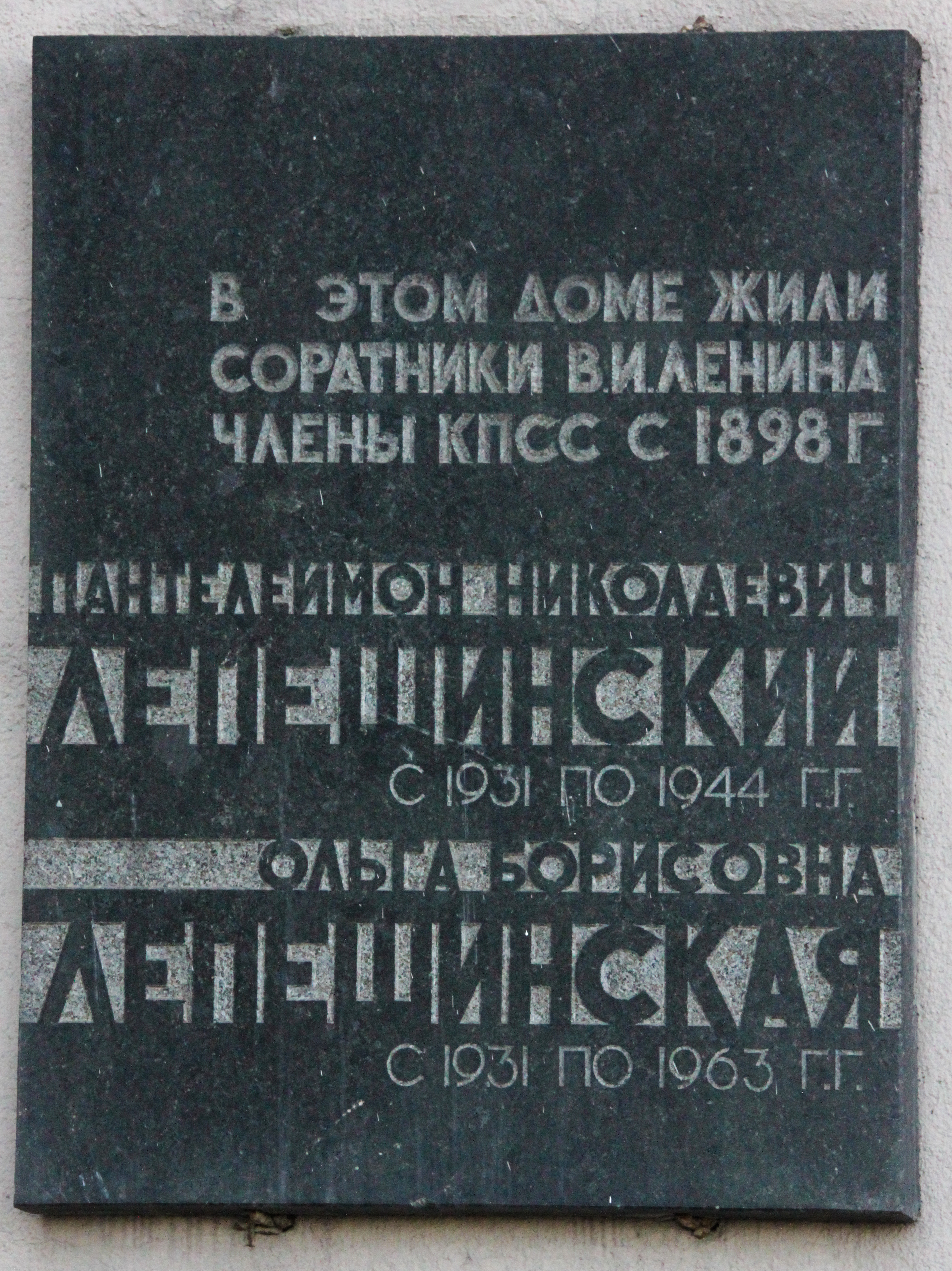 In this building lived comrades of V.I.Lenin, members of CPSU from 1898 Panteleimon Nikolayevich Lepeshinskiy from 1931 to 1944 and Olga Borisovna Lepeshinskaia from 1931 to 1963.